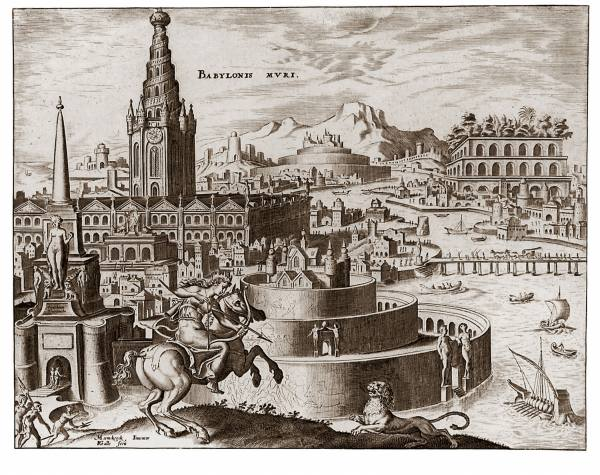 Undated sepia-toned illustration of the mythical Hanging Gardens of Babylon by Maerten van Heemskerck (1498-1574), one of the seven wonders of the ancient world. Babylon, Iraq